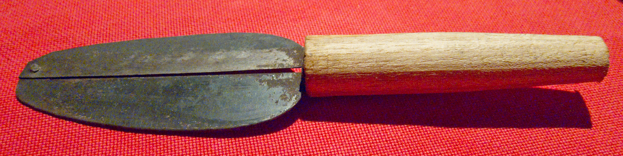 Everyone in Vietnam seems to use these carbon steel vegetable peelers. I bought one for US$ 1, I'm sure I overpaid by a factor of 3 at least.